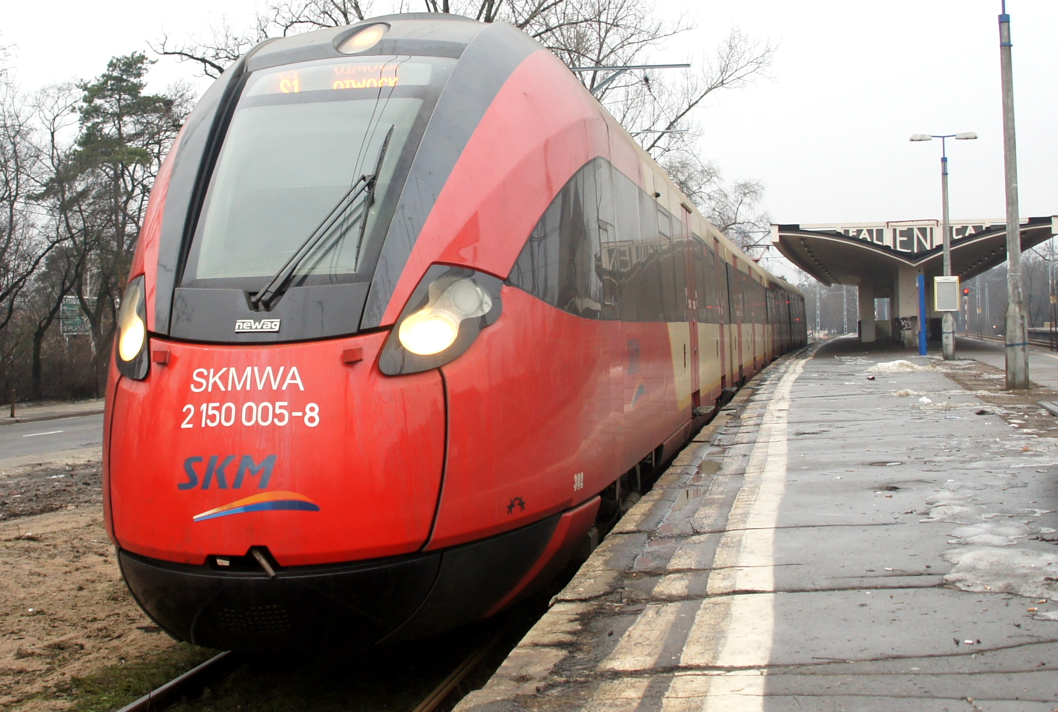 Train type 19WE belonging to SKM Warsaw, during a stop Falenica railway station, before leaving to Otwock.